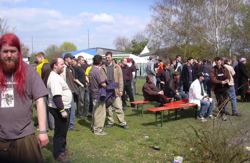 Breakpoint 2004 - bonfire - 'the real party is outside' Photographed by: User:Avatar